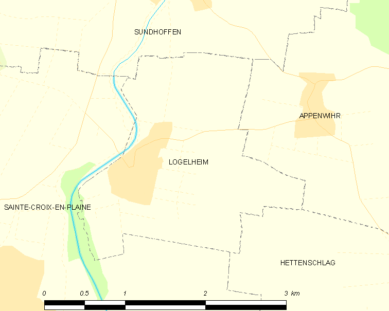 Map of French municipality